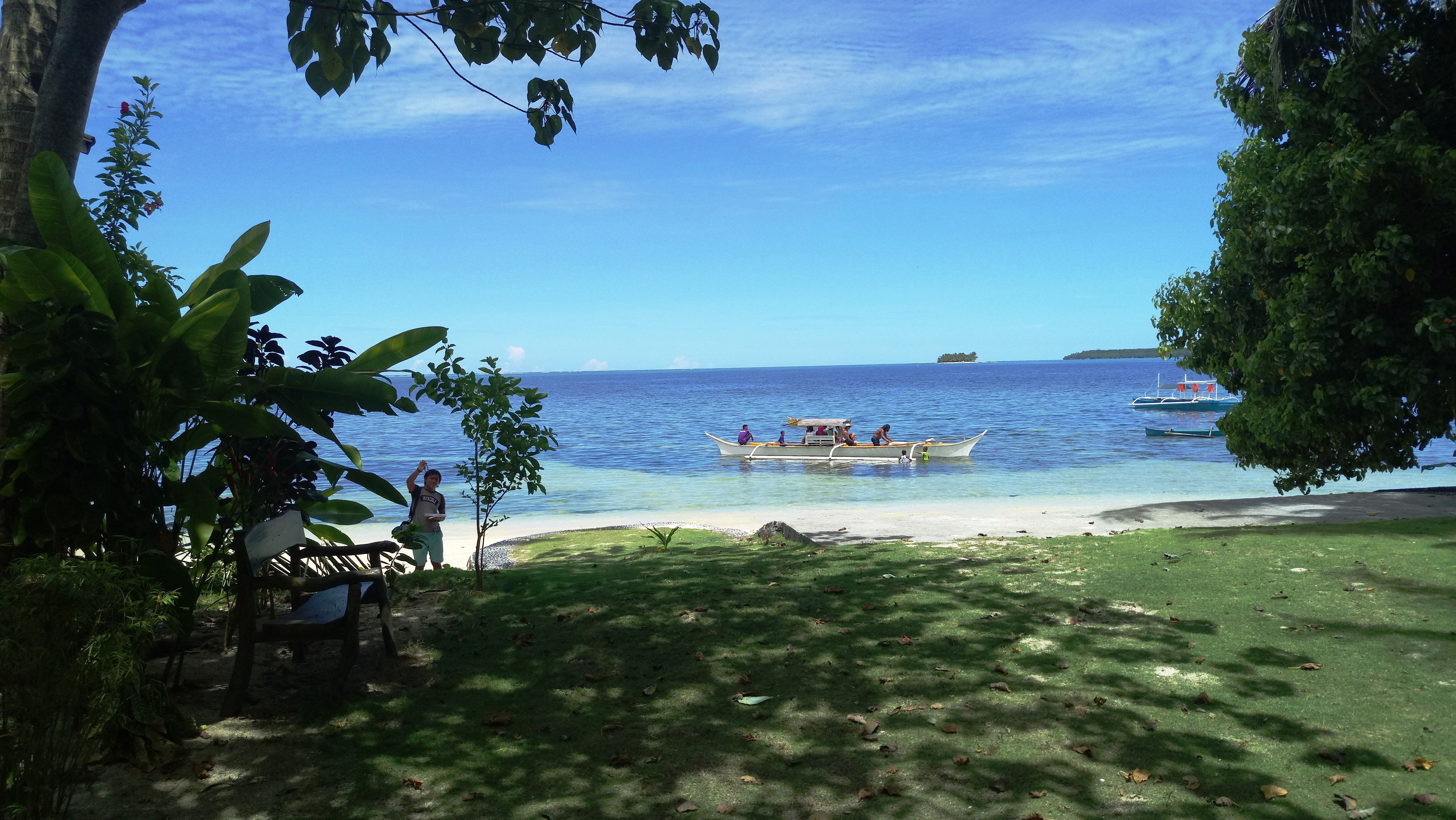 Siargao